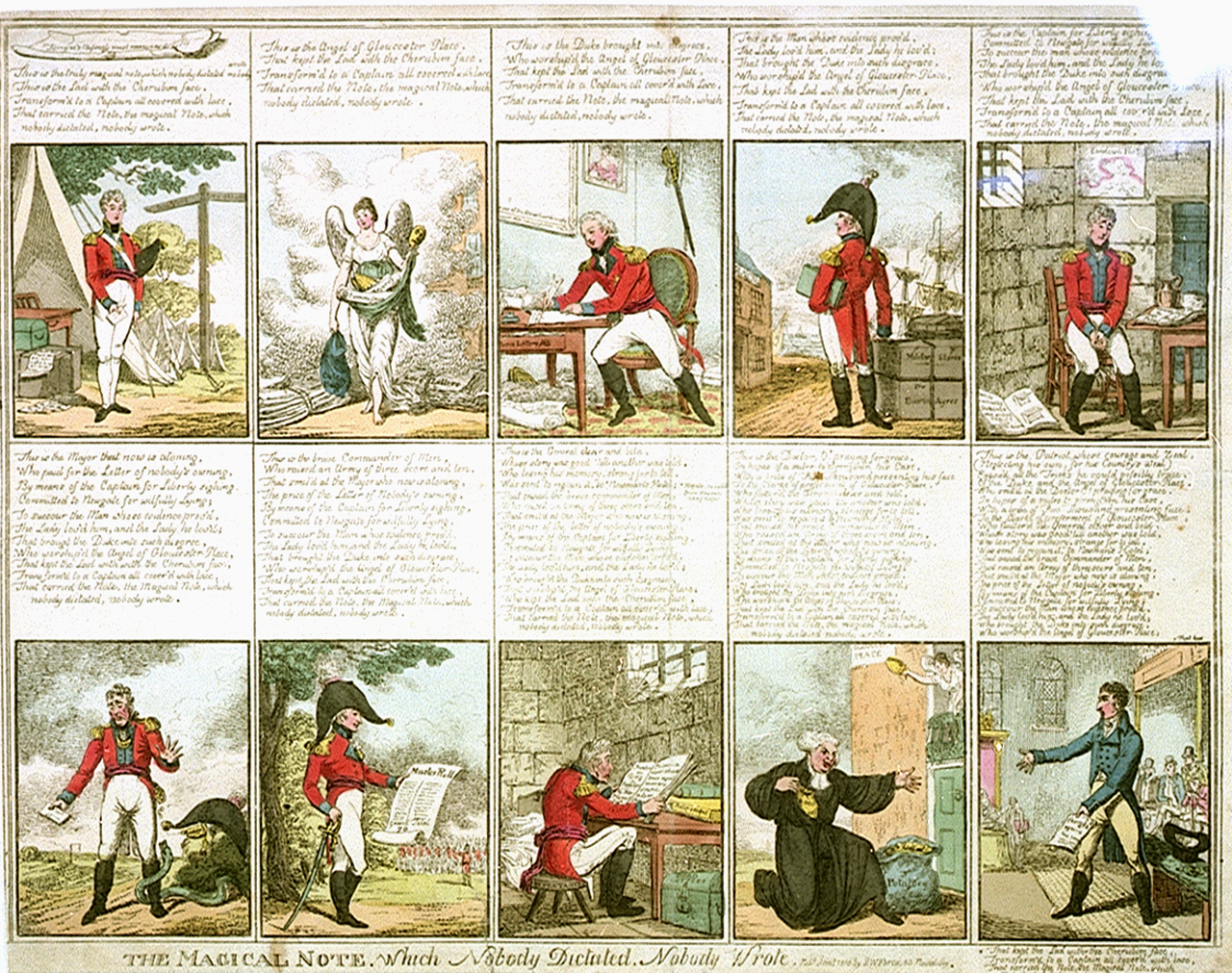 The Magical Note. Which Nobody Dictated, Nobody Wrote (caricature) Explanation: Hand-coloured.; Text in English below images.